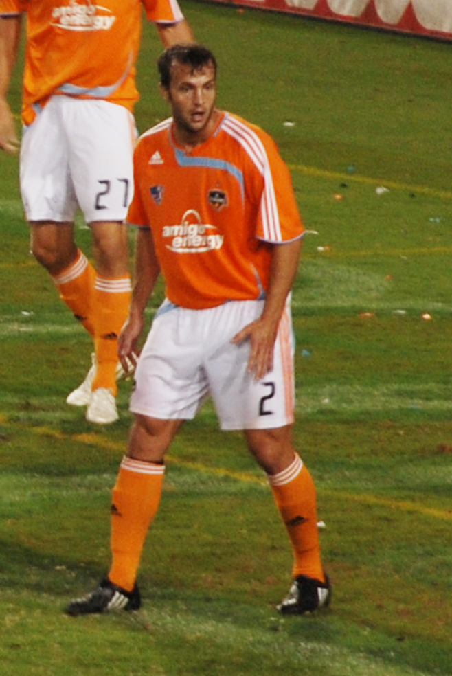 Houston vs San José @ Robertson Stadium